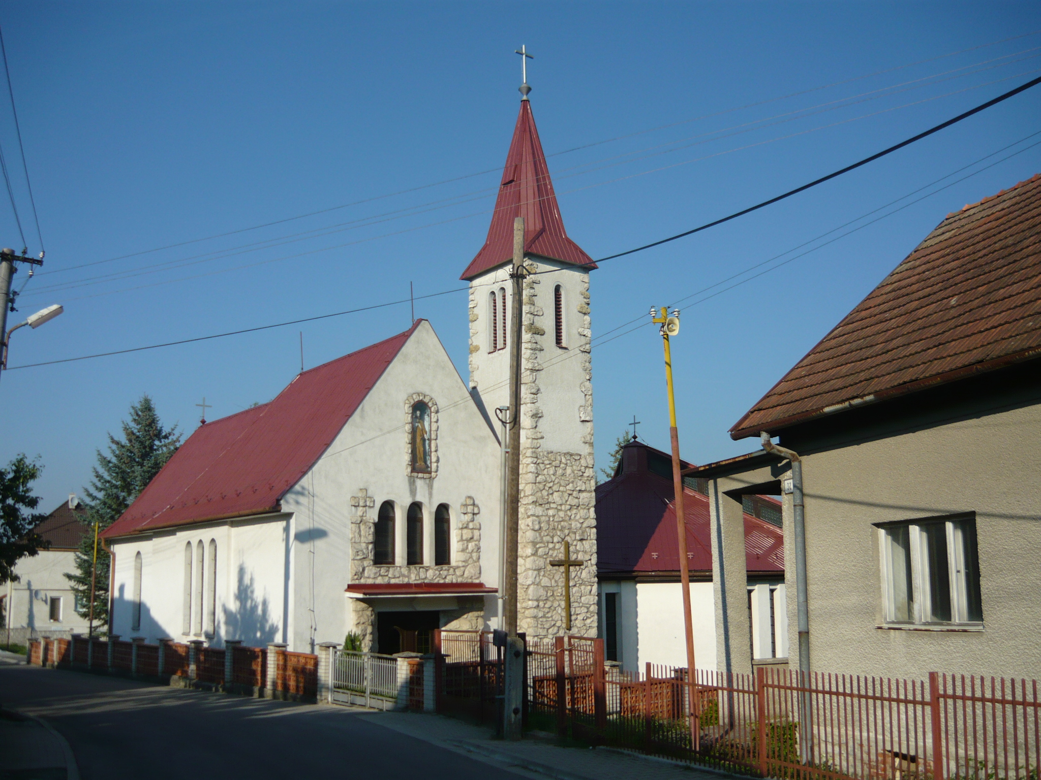 Saint Joseph the Worker’s church in Kolačno, Slovakia.